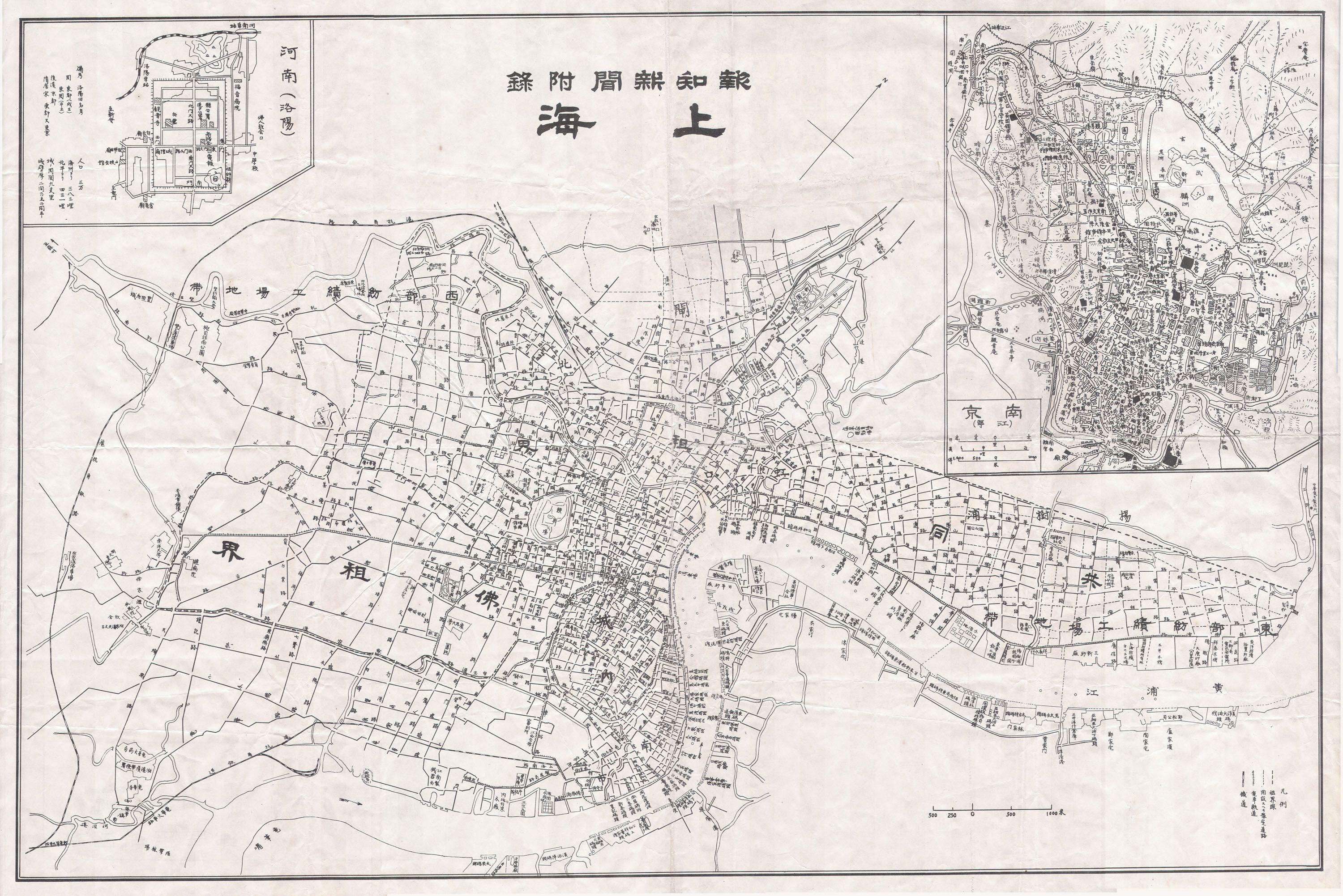 This 1932 map depicts the city of Shanghai, China. The various concessions are all clearly labeled. All text in Chinese / Japanese.